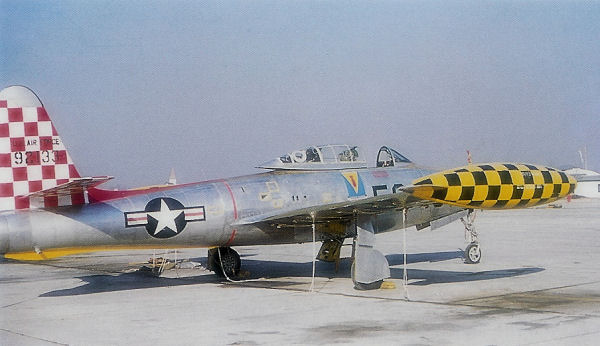 F-84E of the 527th Fighter Squadron - 86th Fighter Wing - Neubiberg Air Base Germany. Editing file tytle shows F-86E. Should show F-84E. Photo shows 527th aircraft but has 526th tail section. (Tail section is removable) I was pilot in the 525th.